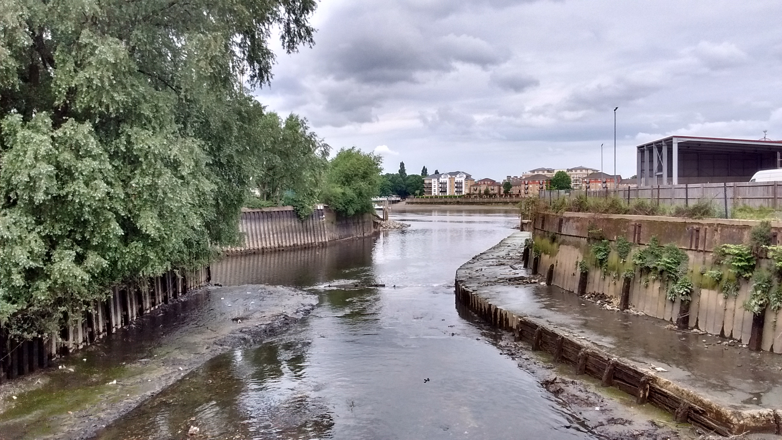 This view shows the delta shortly after the removal of a half weir structure that had broken and which was giving rise to excessive siltation of the river Wandle